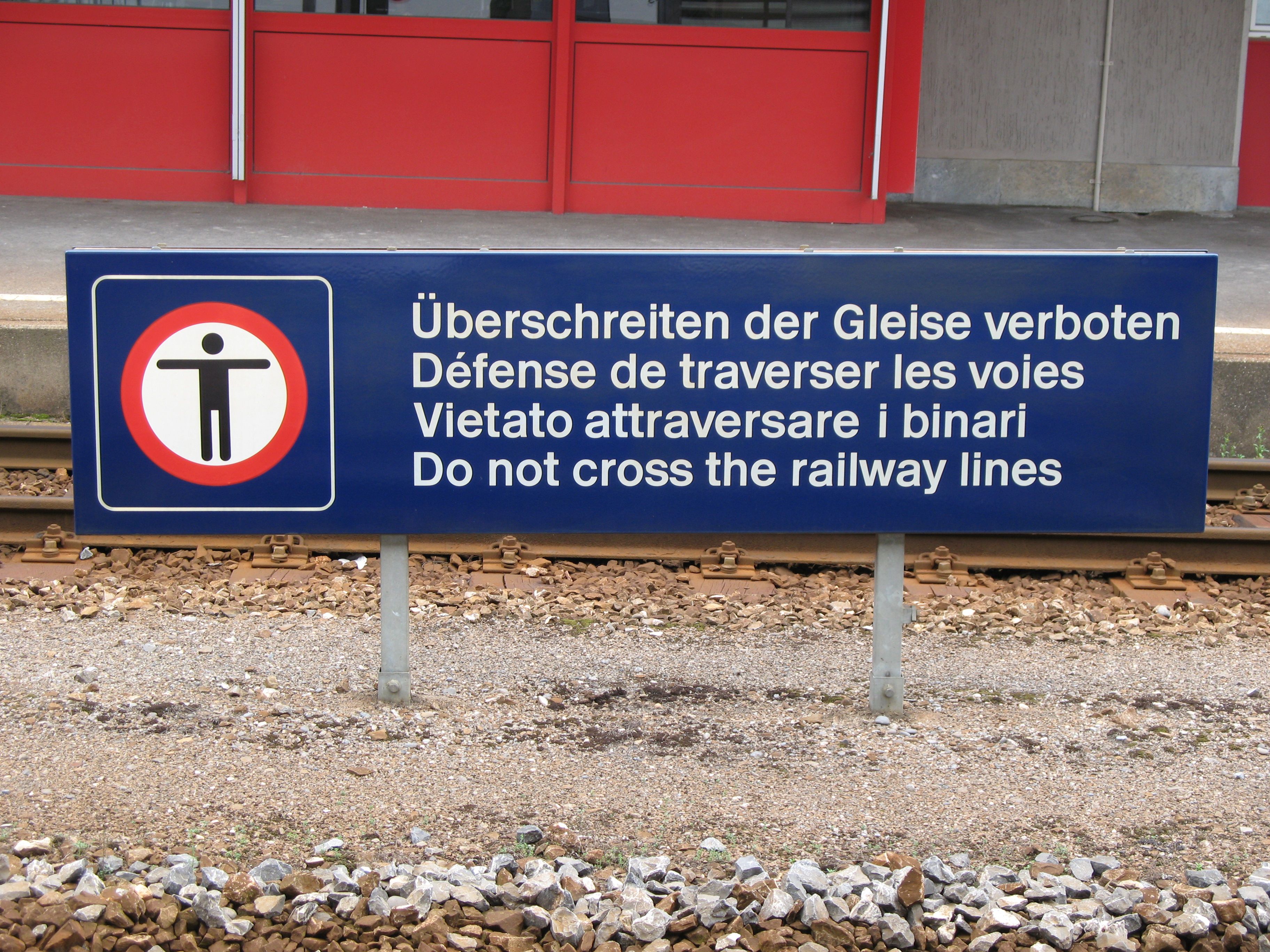 "Do not cross the railway lines", Stansstad, Switzerland